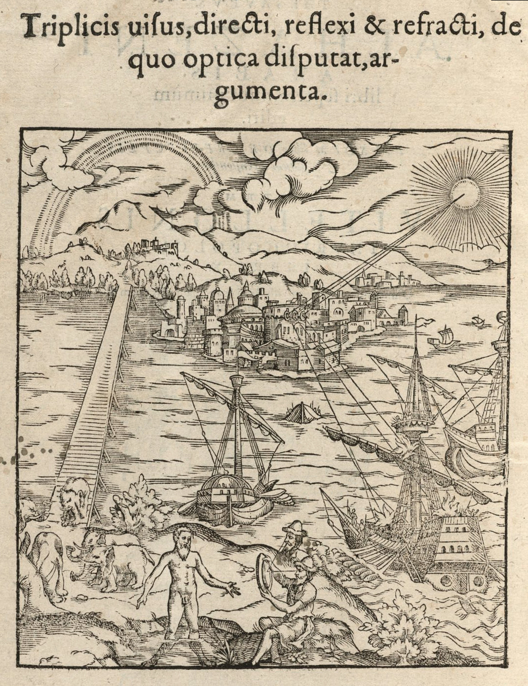 Illustration: Triplicis uisus, directi, reflexi, & refracti, de quo optica disputat, argumenta. From Opticæ thesaurus, 1572, by Alhazen (965-1039). GC5 R4947 572i, Houghton Library, Harvard University